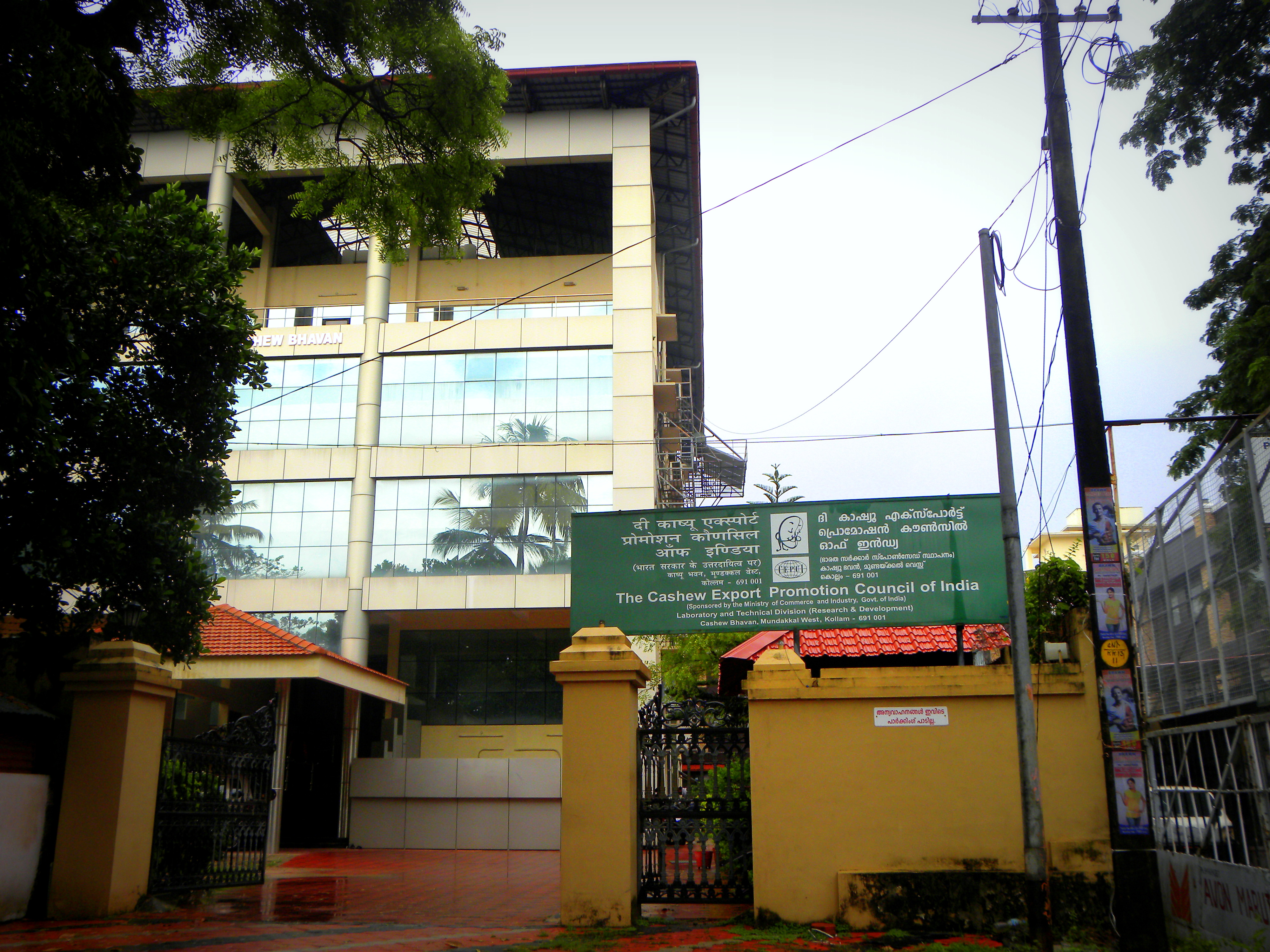 Cashew Export Promotion Council of India(CEPCI) headquarters is situated at Mundakkal in Kollam city